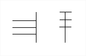 Two varieties of recording the score in the card game of Elfern